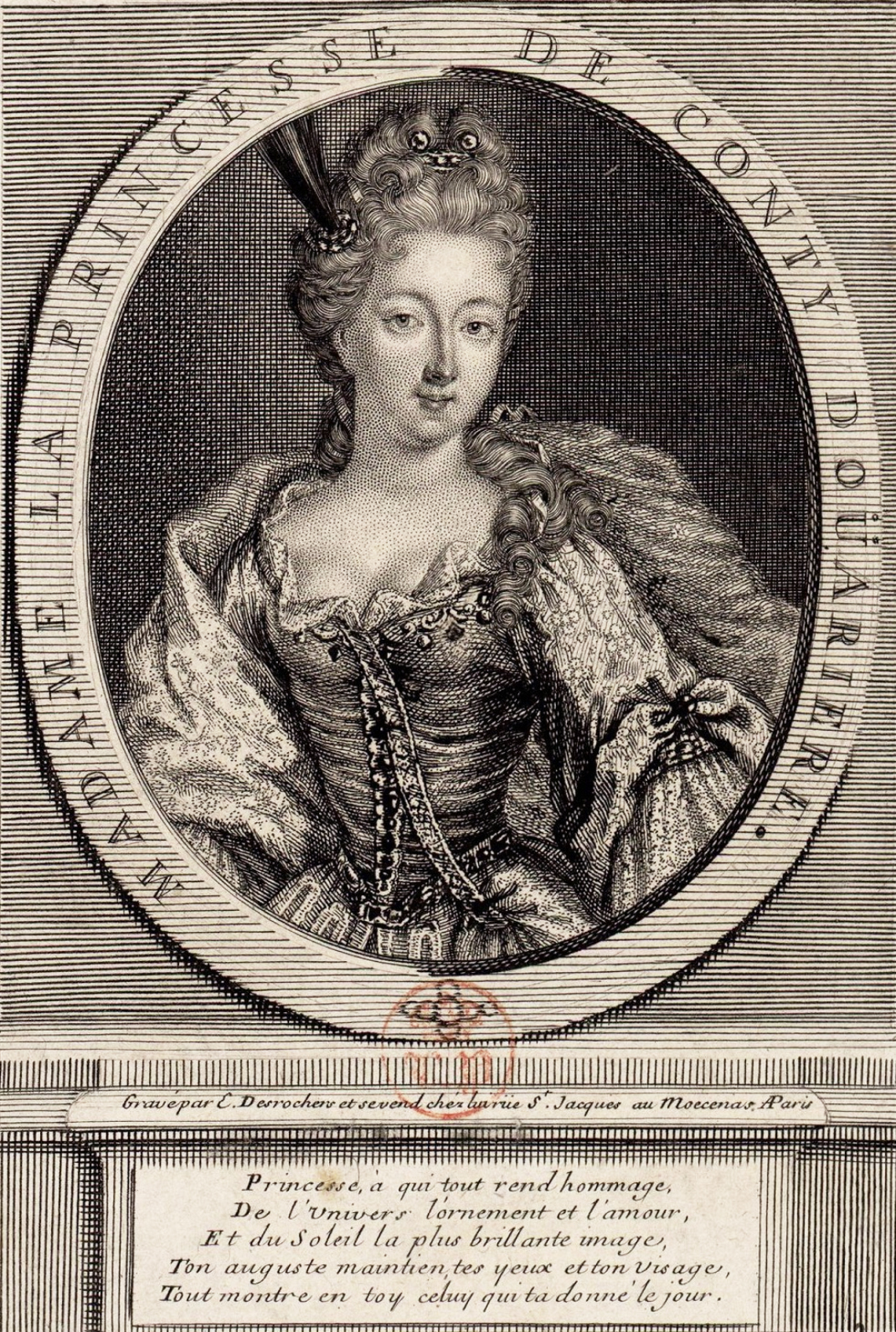 Engraving of the Princess of Conti